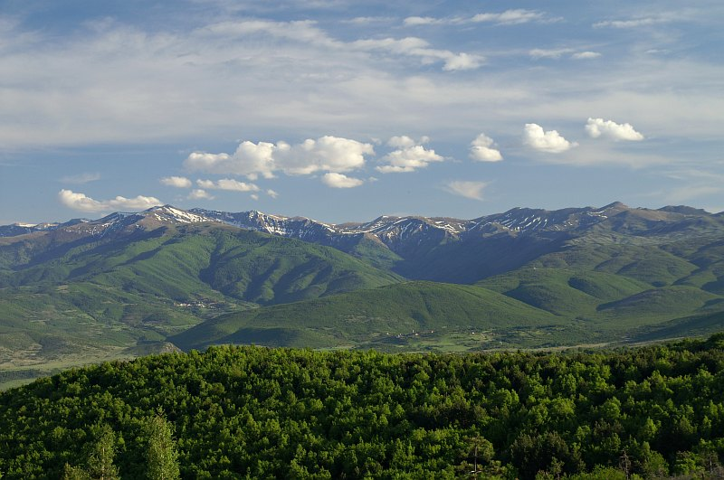 View towards the south from Mount Vodno, near Skopje in the Republic of Macedonia